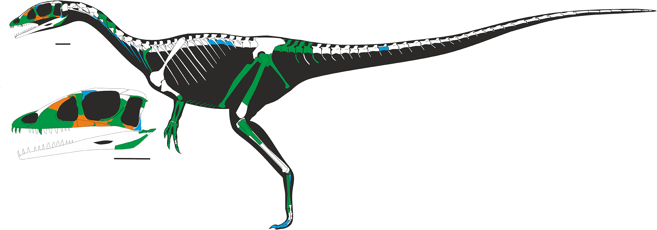 Skeleton outline of Dracoraptor hanigani. Bones highlighted green for present, orange for external moulds and blue for tentatively identified bones. Many unidentified or uncertain elements have been omitted.